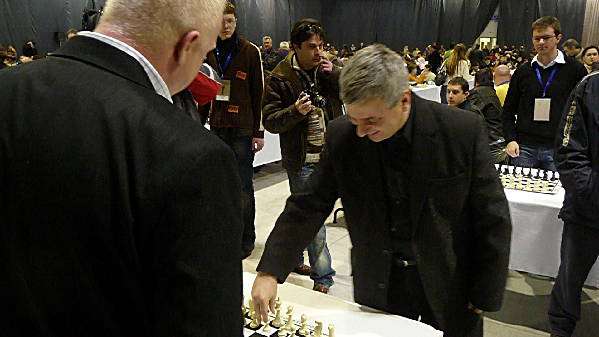 Simul Chess Guinness World Records